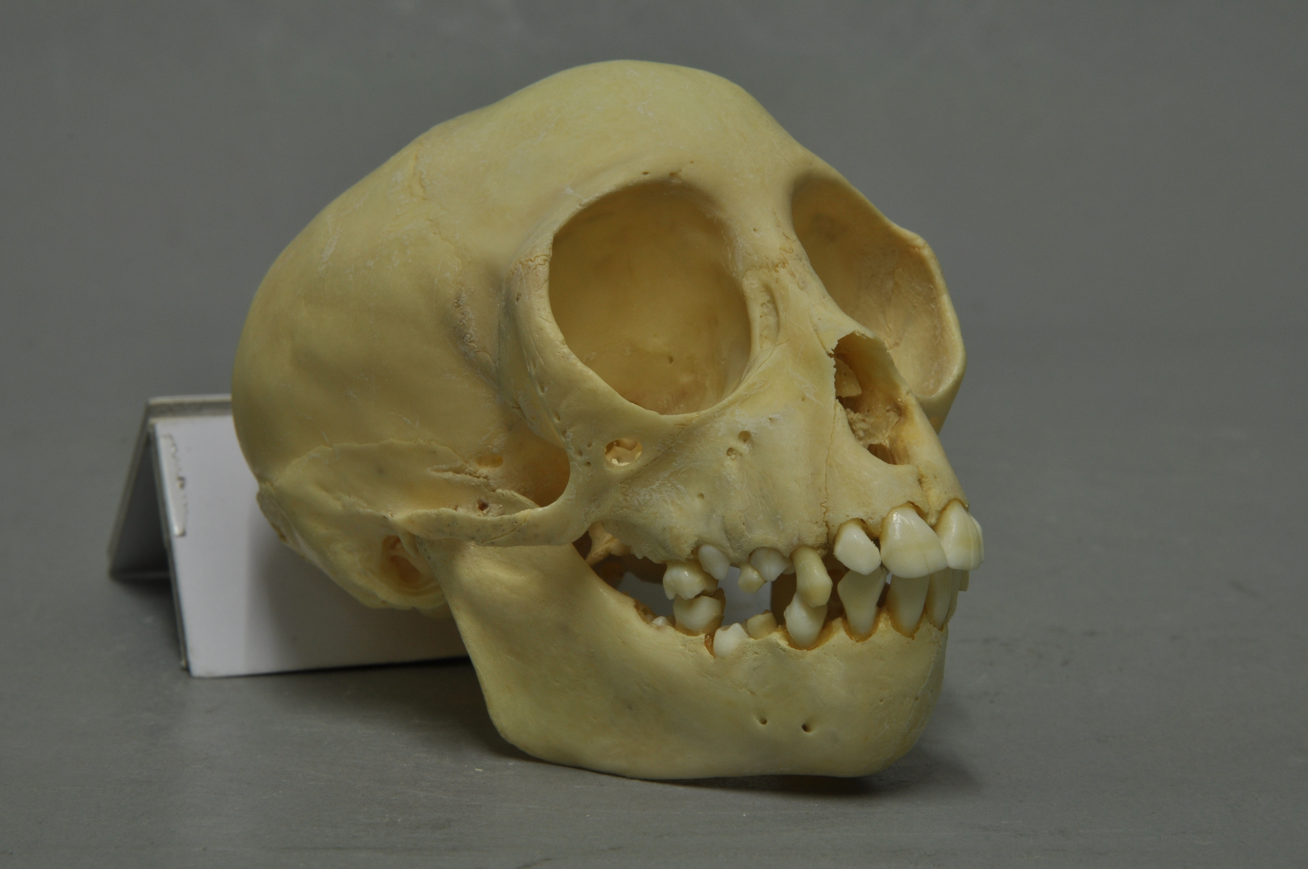 Red-faced Spider Monkey Ateles paniscus, skull, Coll. Museum Wiesbaden